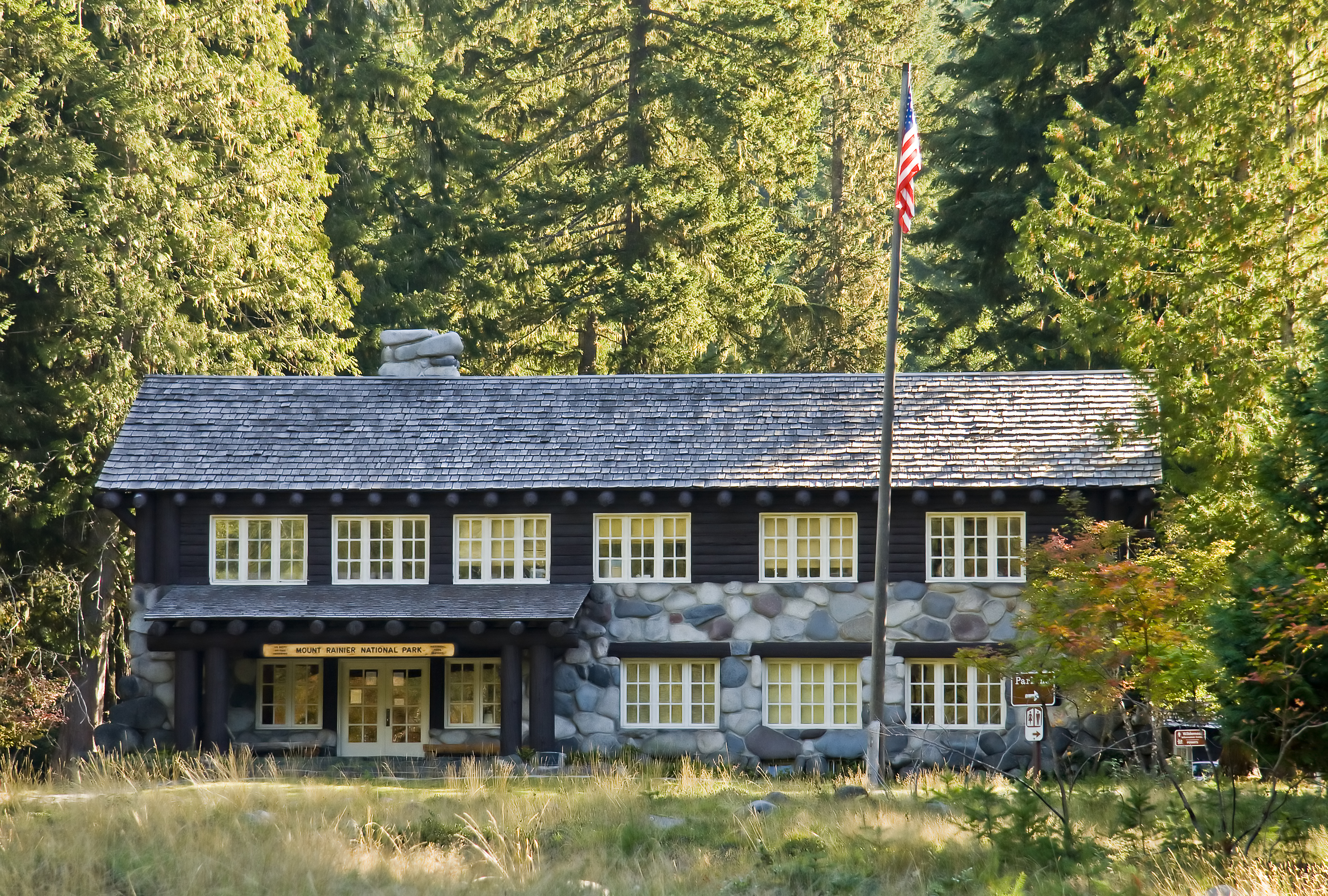 Old headquarters building at Longmire, Mount Rainier National Park, Washington, USA. Both the Longmire Buildings and Longmire Historic District are listed on the National Register of Historic Places.